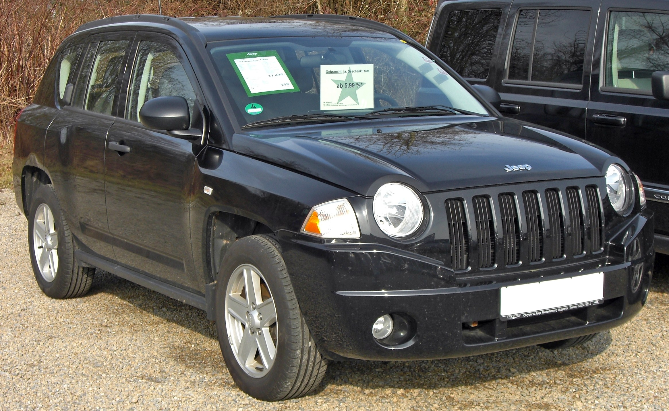 Jeep Compass